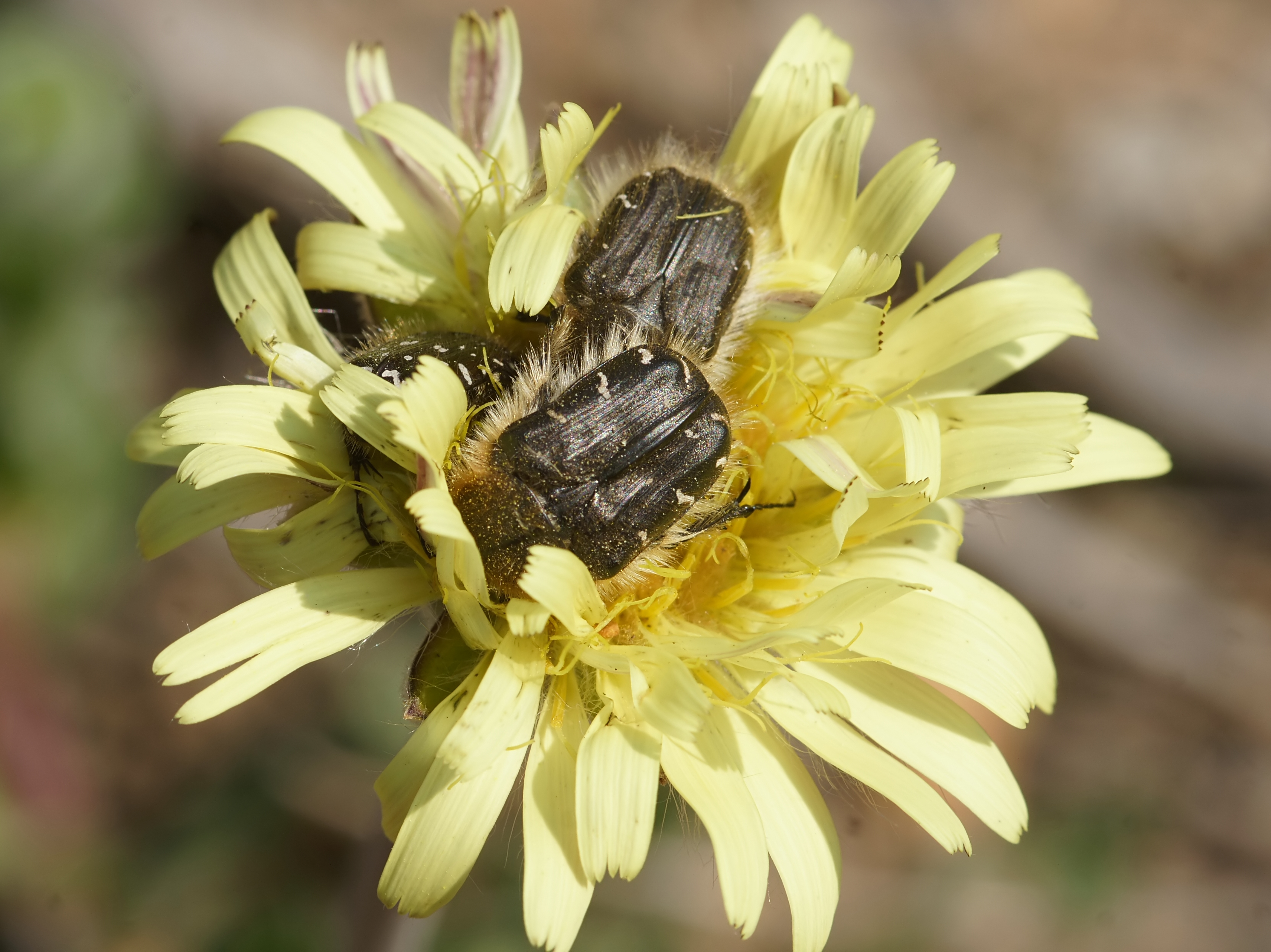 Flower chafers near Fréjus, France